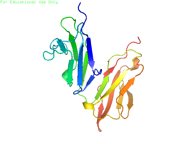 the structure of the protein CD32(pdb code 2FCB）was rendered using the software Pymol